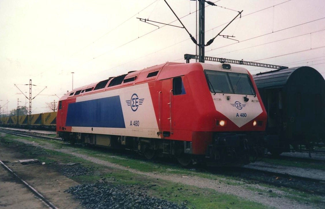 Greek railways ADtranz class 220 loco between duties at Thessaloniki's old station